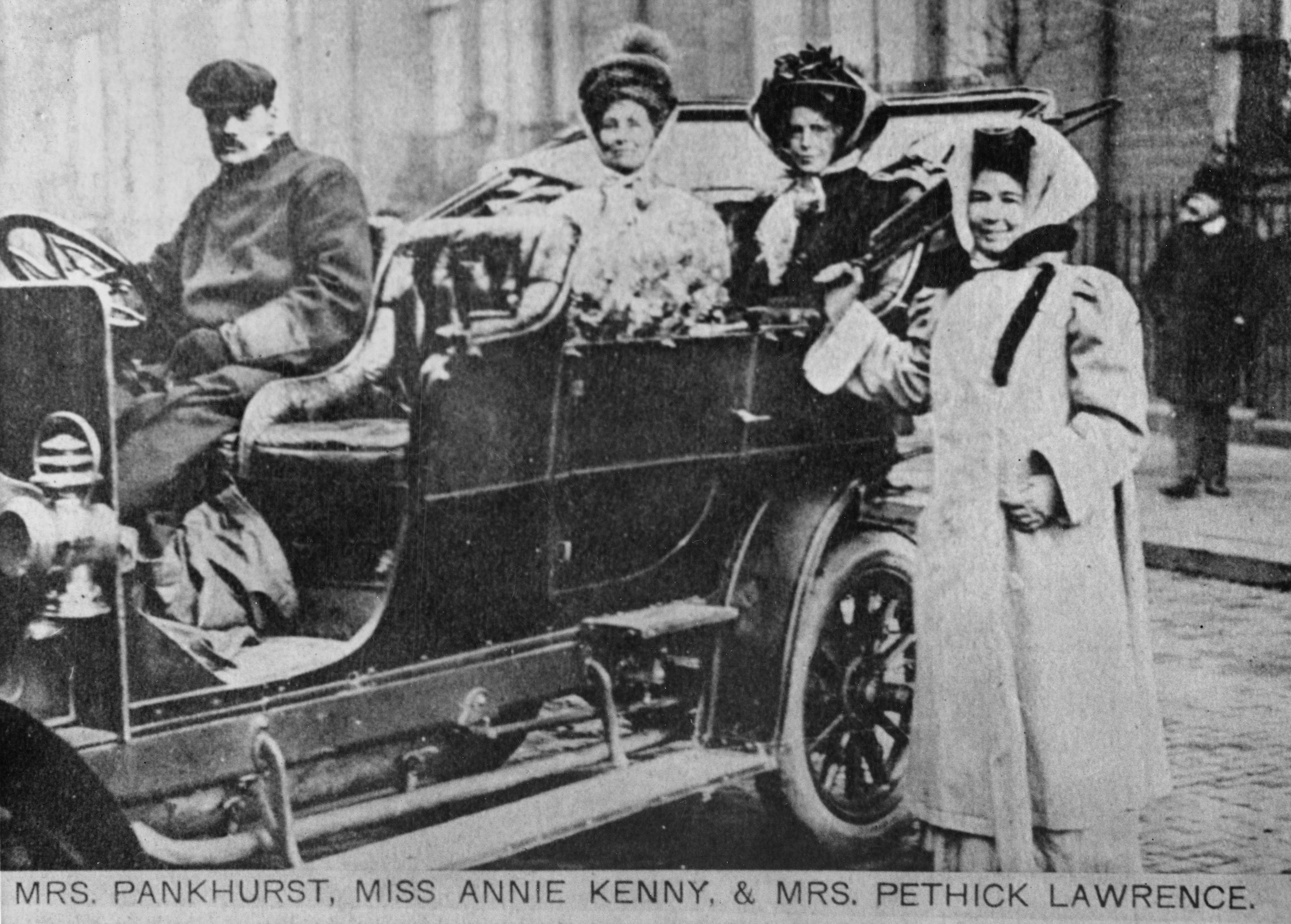 7JCC/O/02/105 Photograph, printed, paper, monochrome, reproduction of a suffrage postcard showing Emmeline Pankhurst and Annie Kenny seated in the back of a car, Emmeline Pethick Lawrence standing beside the car; manuscript inscription on reverse 'Mrs Pankhurst, Annie Kenny & Mrs Pethick Lawrence all went to prison in the cause of suffragettes. The drive is Bill [Ropley] who drove the suffragette taxi and now he is gardener to Rt Hon Pethick Lawrence & has been with him 41 years'